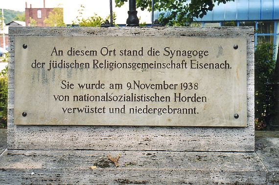 Commemorative plaque for the destruction of the Synagogue of Eisenach by the nazis in 1938.